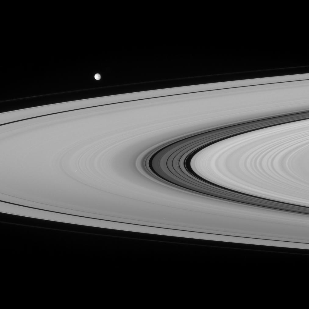 This view from the Cassini spacecraft provides a crisp look at the fine material and detailed structure in the Cassini Division that is not readily visible from the Earth. The faint F ring, just visible between Mimas and the A ring, bounds the main rings of Saturn. Mimas is 397 kilometers (247 miles) across. This view looks toward the sunlit side of the rings from about 4 degrees below the ringplane. The image was taken in visible green light with the Cassini spacecraft narrow-angle camera on Sept. 7, 2007. The view was acquired at a distance of approximately 2.9 million kilometers (1.8 million miles) from Saturn. Image scale is 18 kilometers (11 miles) per pixel on Mimas.